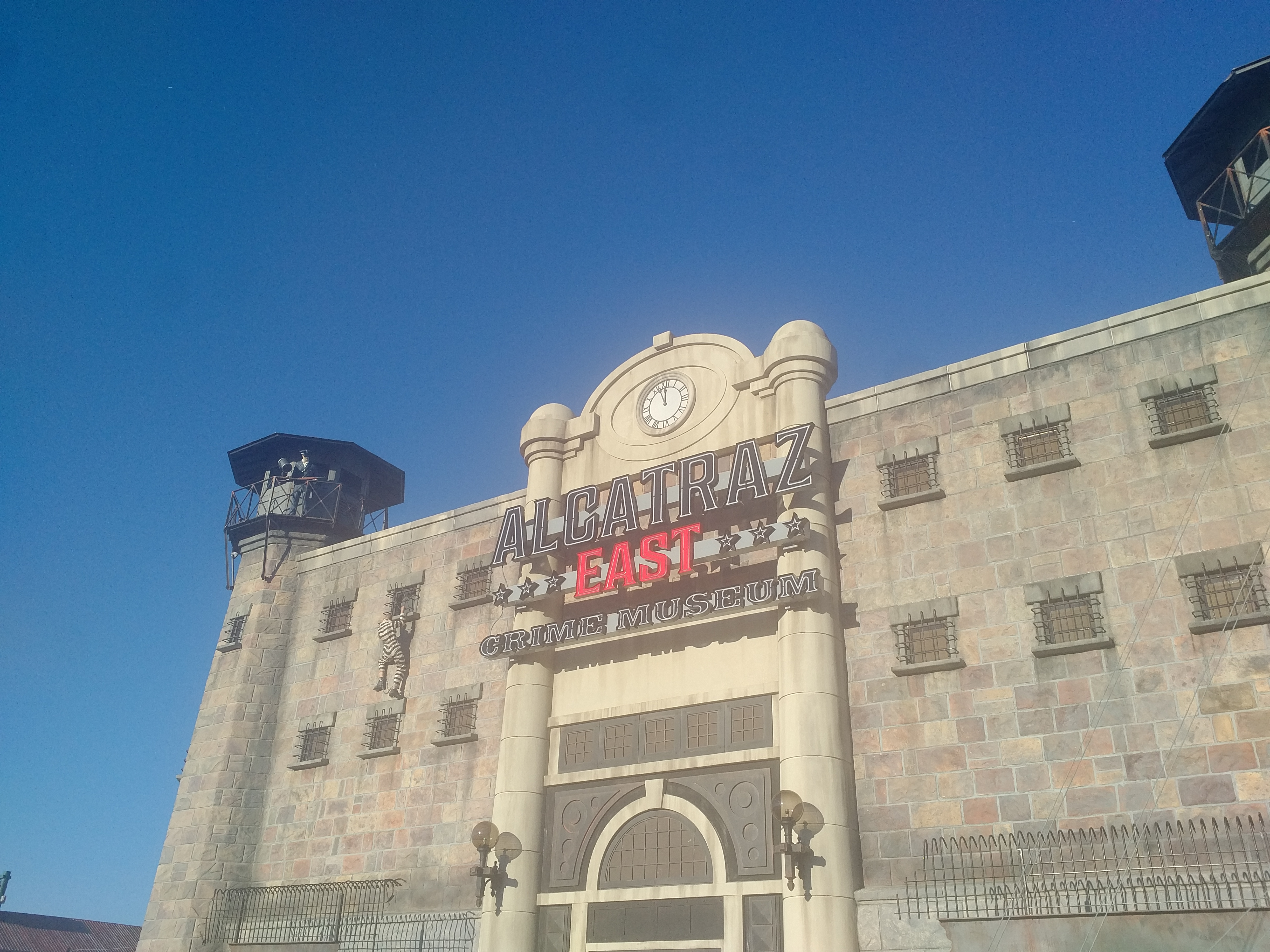 Outside of Building